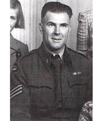 Pharmacist Bert Hodgkinson, who was a passenger on MV Joyita on its disappearence.